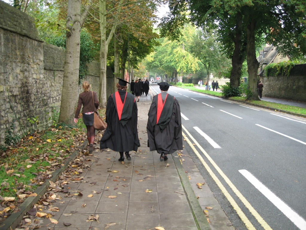 Gowns showing hoods, from behind, walking along Parks Road in Oxfordimg_0463.jpg